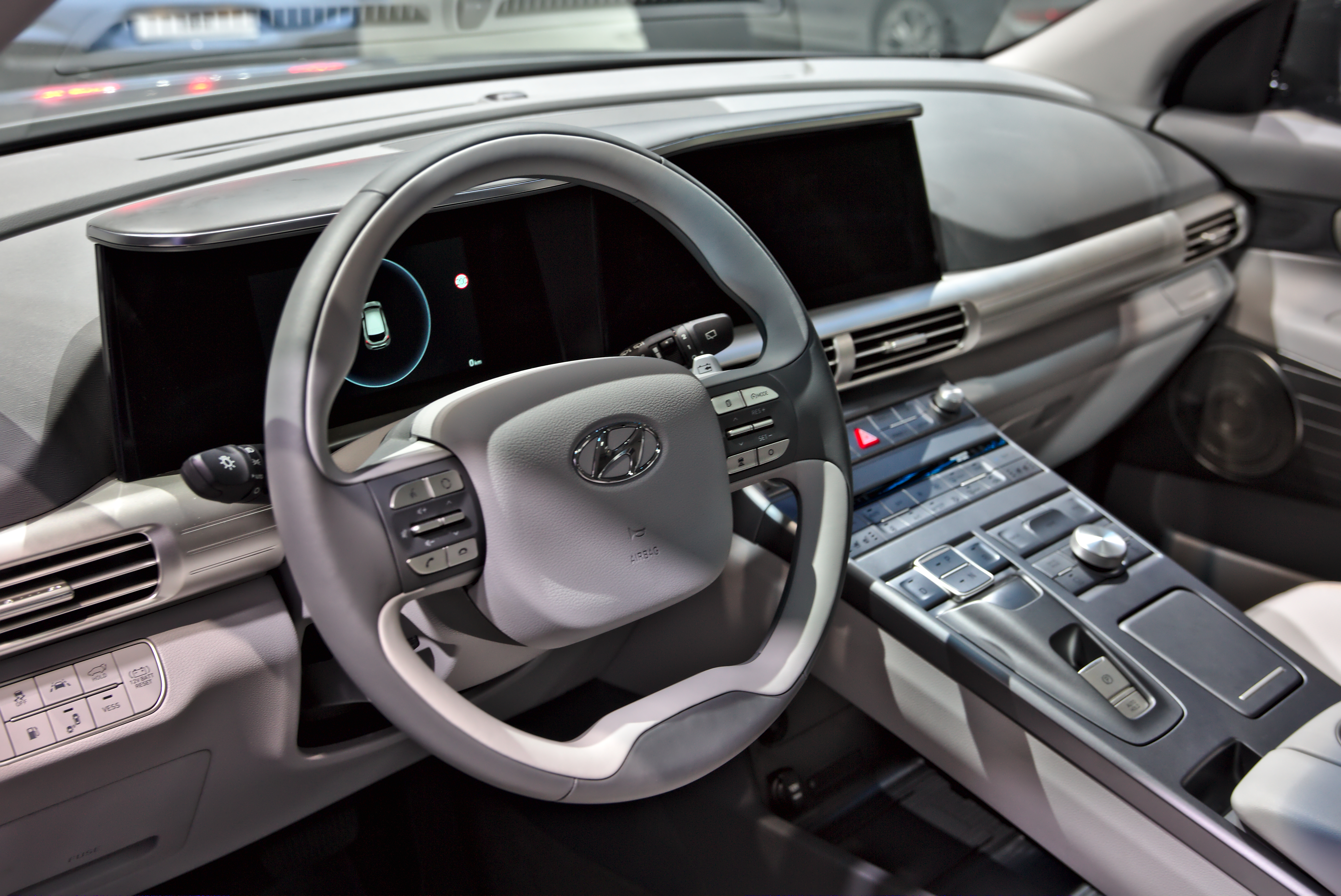 Hyundai Nexo at Geneva Motorshow 2018